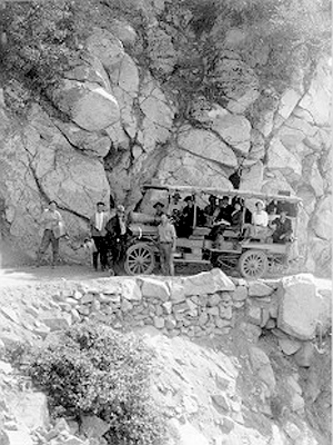 The Mount Wilson Toll Road in 1923 - old road to Mount Wilson in the San Gabriel Mountains of Southern California. Present day hiking trail in the Angeles National Forest, above Altadena, in Los Angeles County.